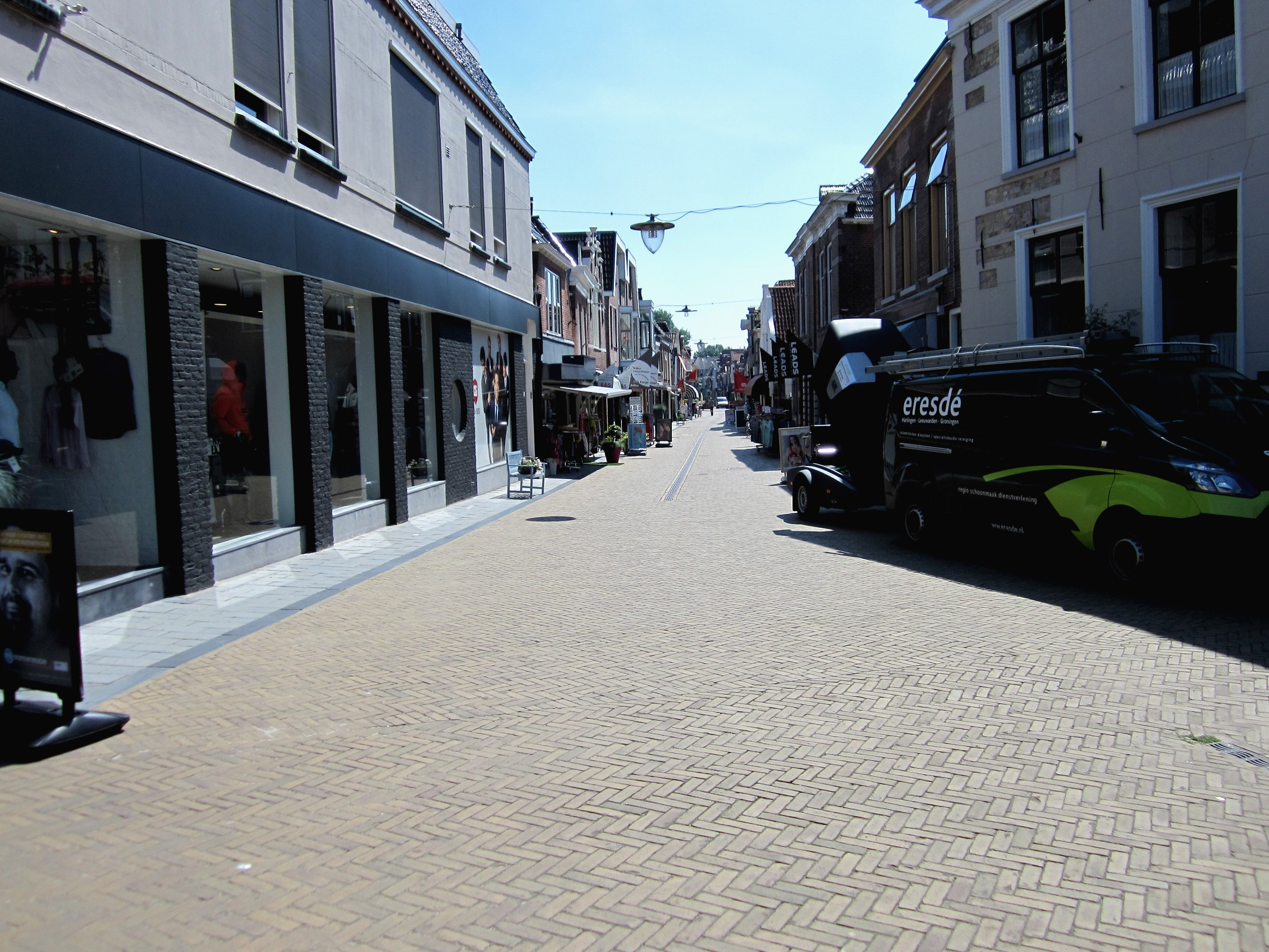 Dykstrjitte/Dijkstraat in Frjentsjer/Franeker, Friesland, the Netherlands.